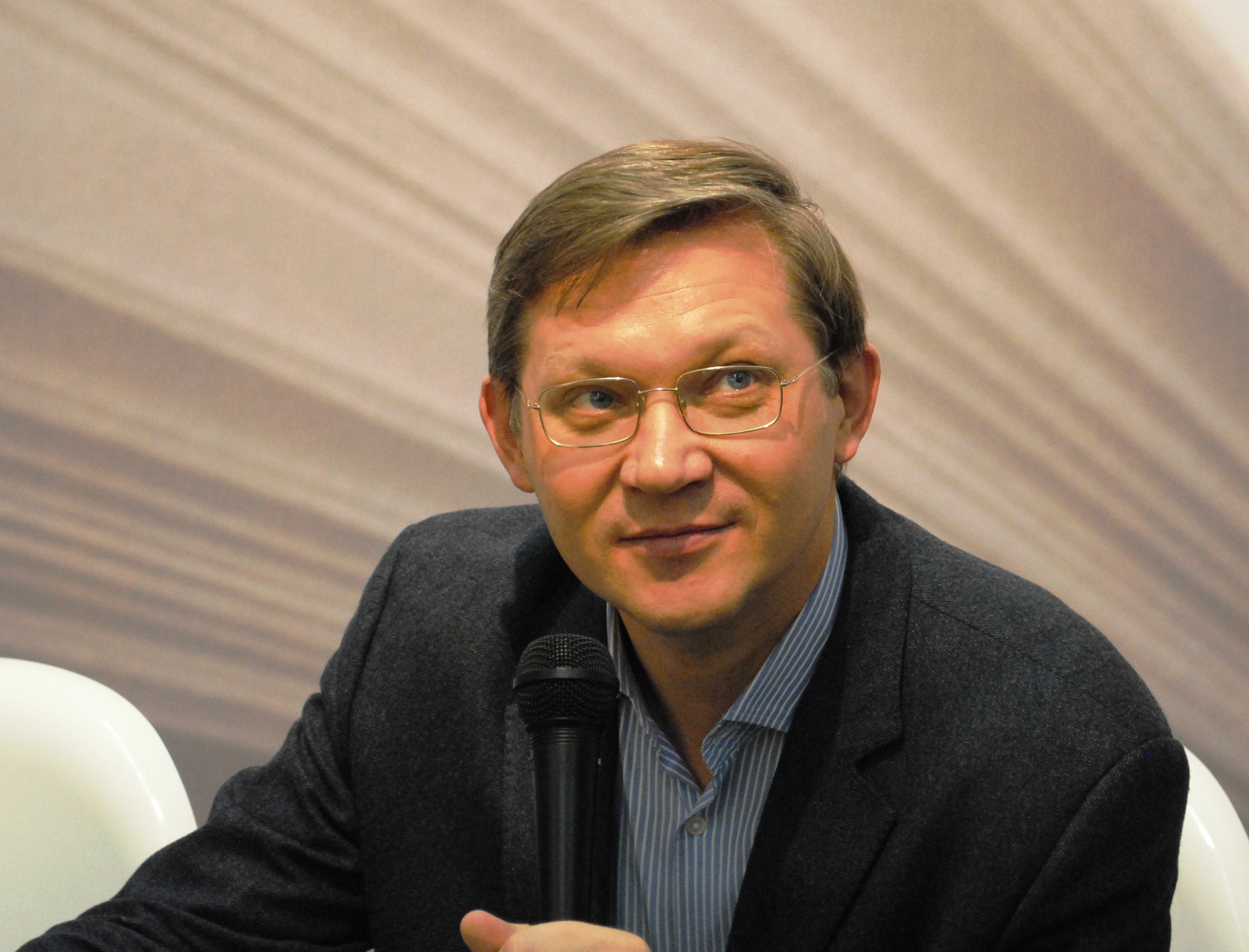 Vladimir Ryzhkov